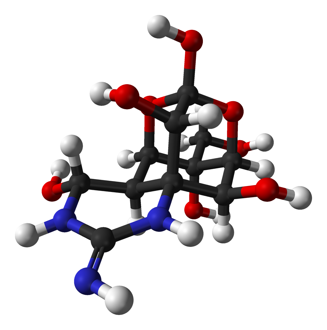 Ball-and-stick model of the tetrodotoxin molecule, C11H17N3O8. For the actual crystal structure of tetrodotoxin, see Akio Furusaki, Yujiro Tomiie and Isamu Nitta (1970). "The Crystal and Molecular Structure of Tetrodotoxin Hydrobromide". Bull. Chem. Soc. Jpn. 43 (11): 3332-3341. Colour code: Carbon, C: black Hydrogen, H: white Oxygen, O: red Nitrogen, N: blue Model manipulated and image generated in Accelrys DS Visualizer.